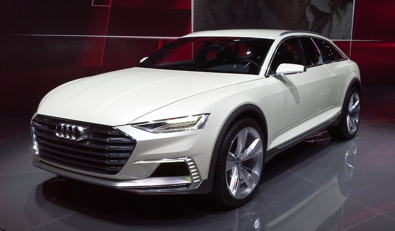 Audi Prologue Allroad Concept photographed at the Auto Shanghai 2015, Shanghai, China.